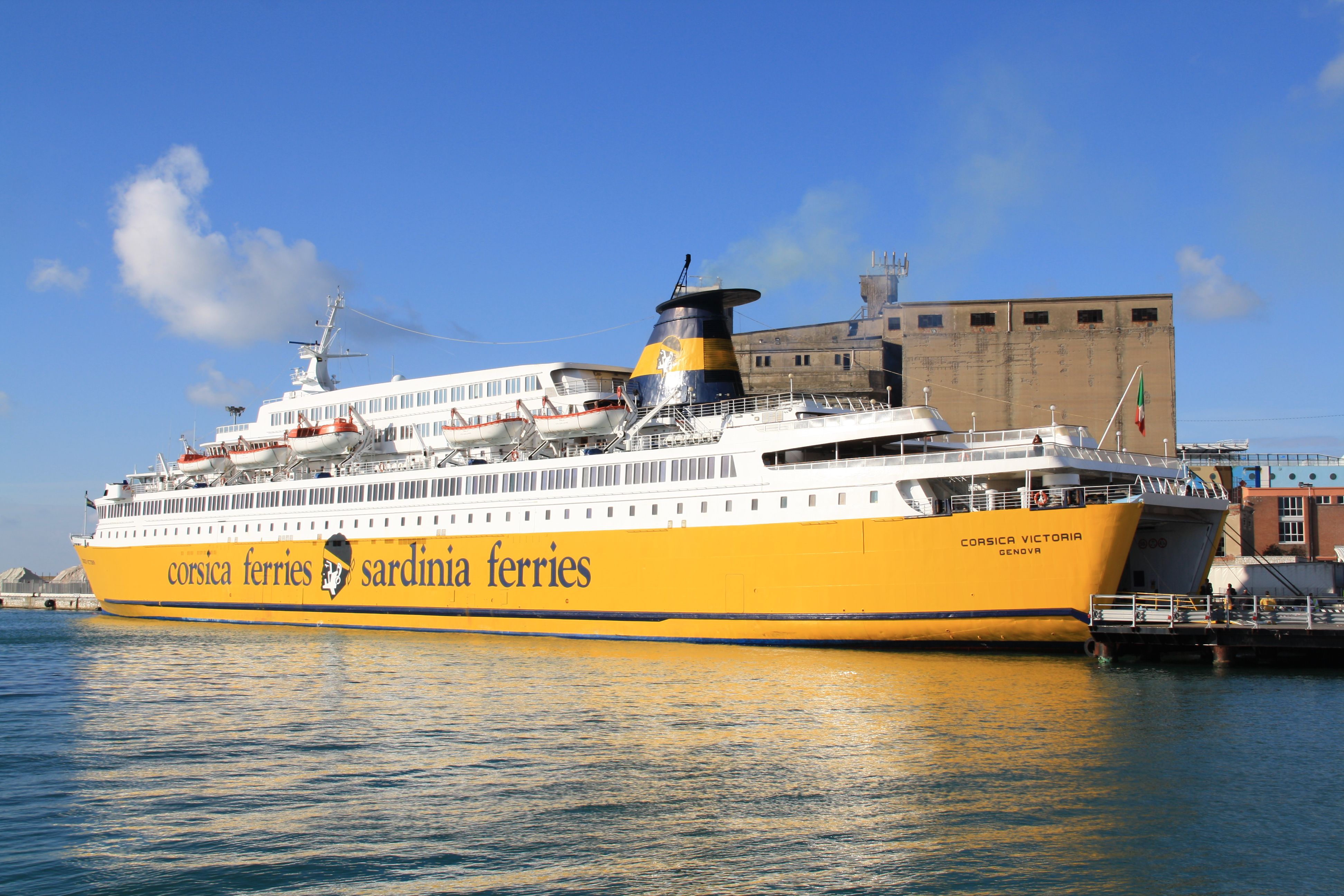 Italy, Port of Livorno. The Corsica Ferries ship Corsica Victoria berthed at "Sgarallino" wharf of "Porto Mediceo".